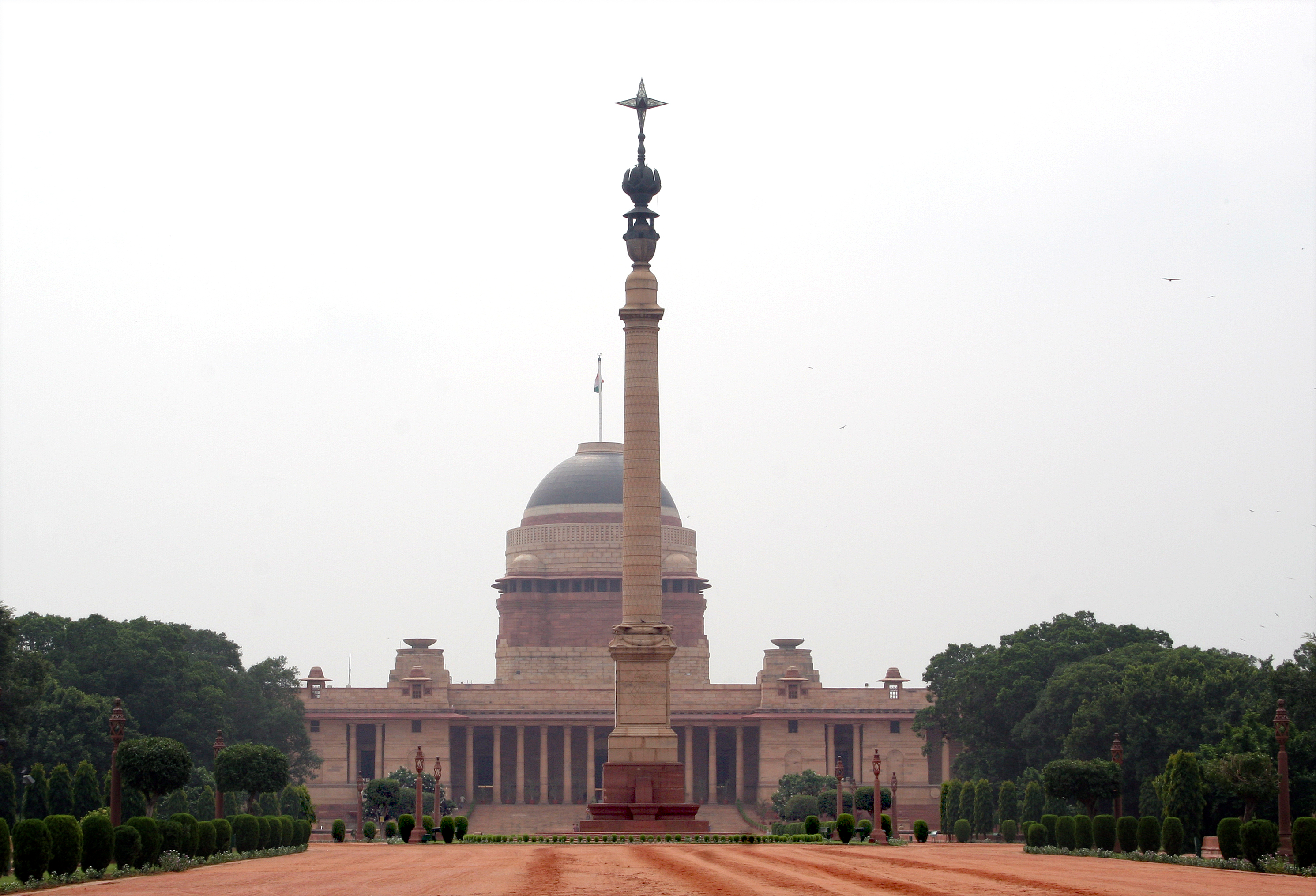 Rashtrapati Bhavan, the presidential palace in New Delhi, India.